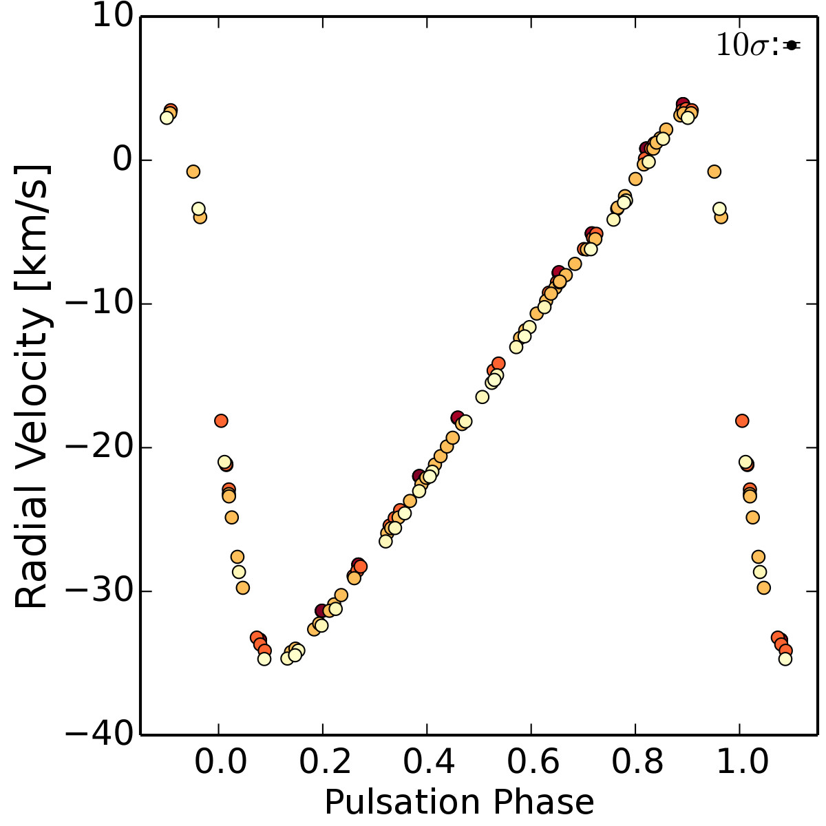 Radial Velocity Data of Delta Cephei as function of pulsation phase measured with the Hermes spectrograph located at the Mercator telescope at the Roque de los Muchachos Observatory, La Palma, Canary Islands, Spain. The ten-fold uncertainty of the measurements is indicated in the top right corner.